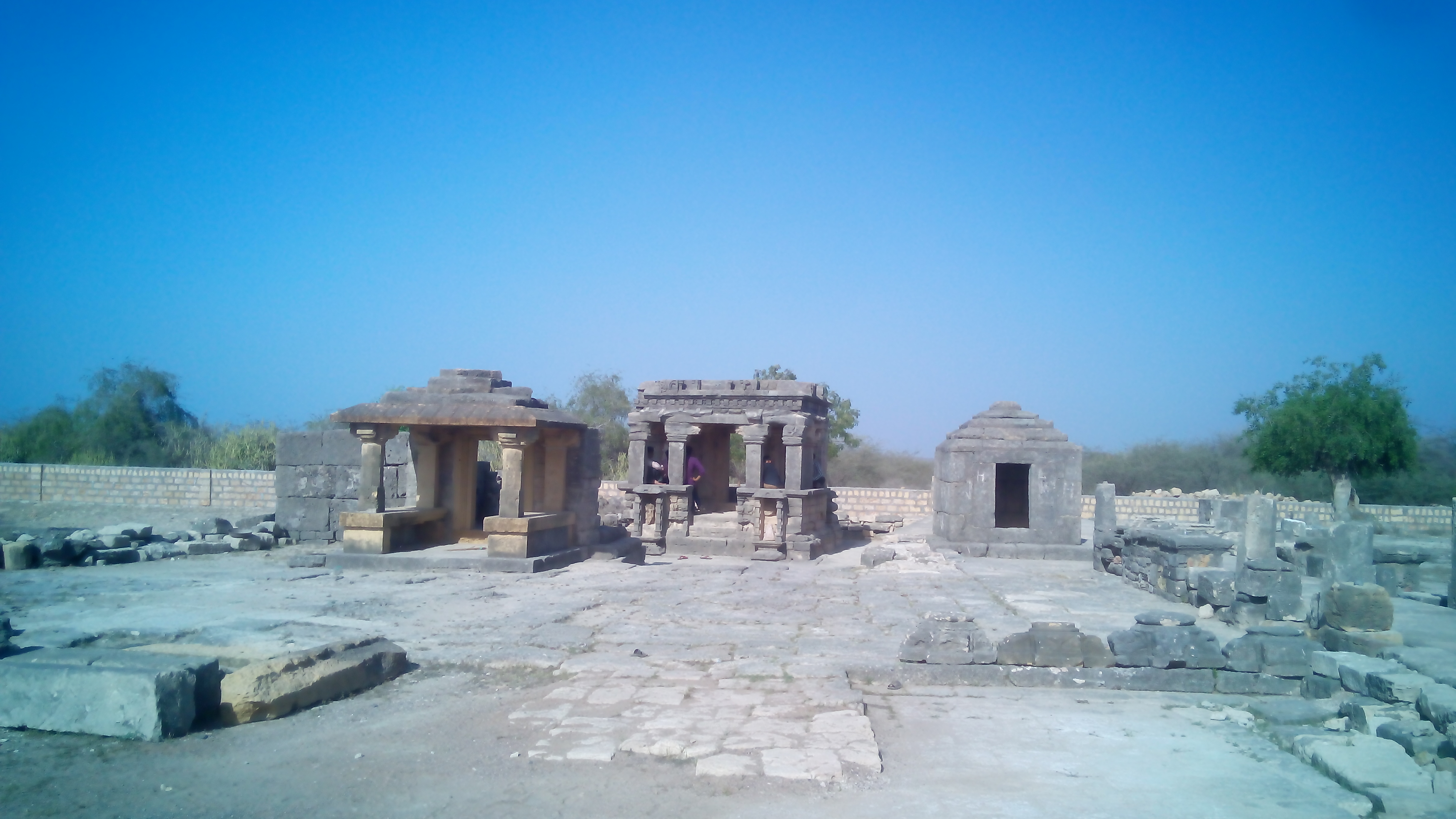 Durvasa Rishi's Ashram & its site